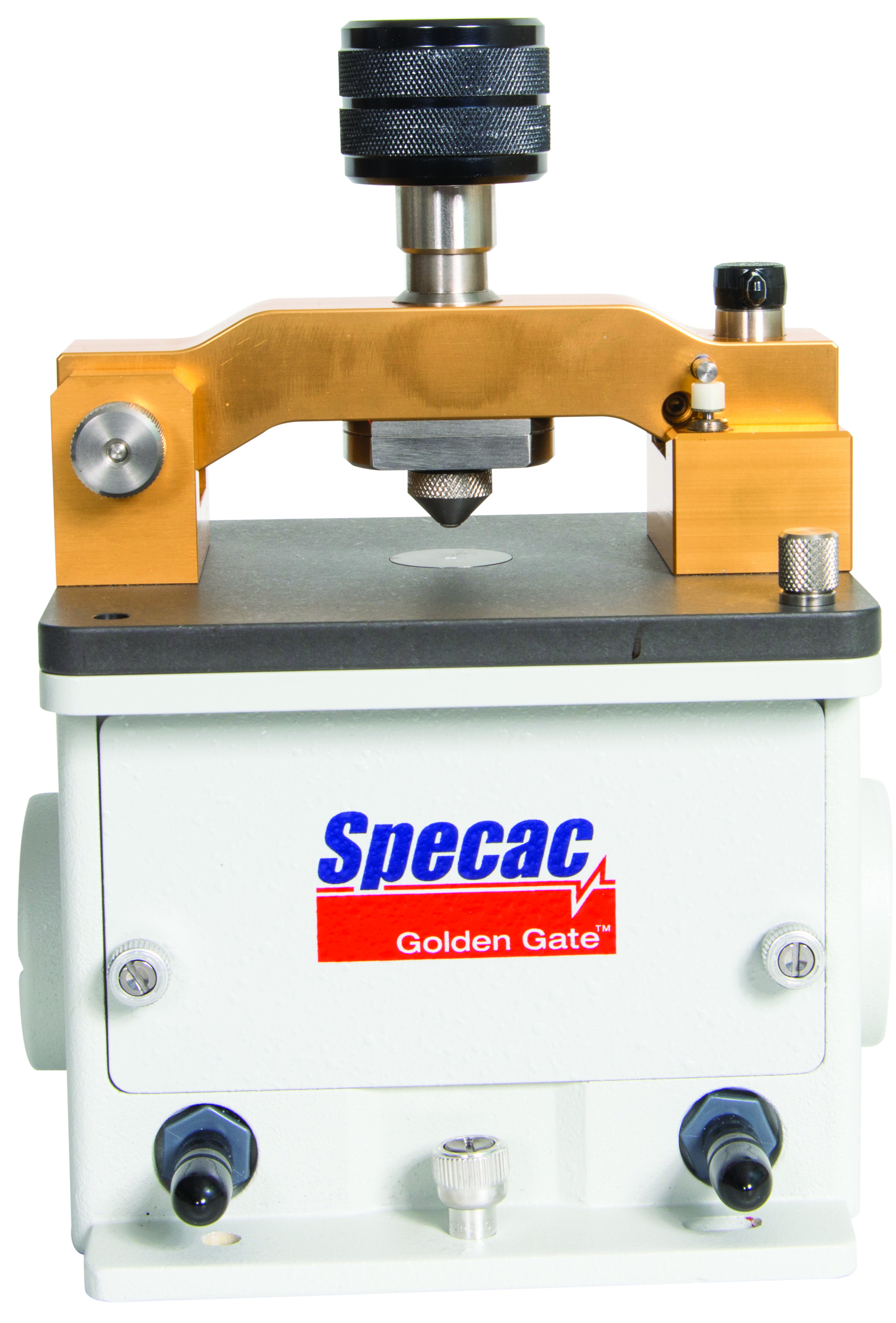 ATR accessory